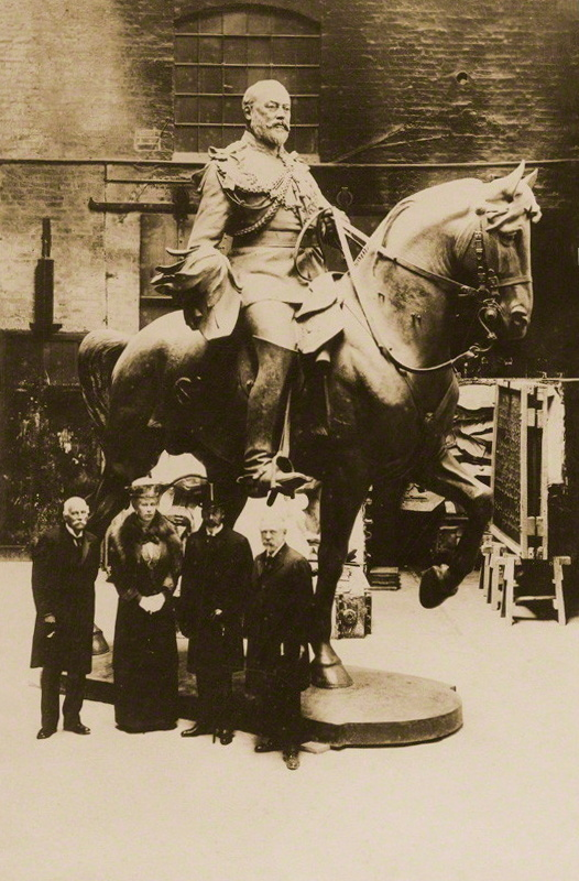 L-R: Thomas Brock, George V of the United Kingdom, Mary of Teck, Arthur Brian Burton